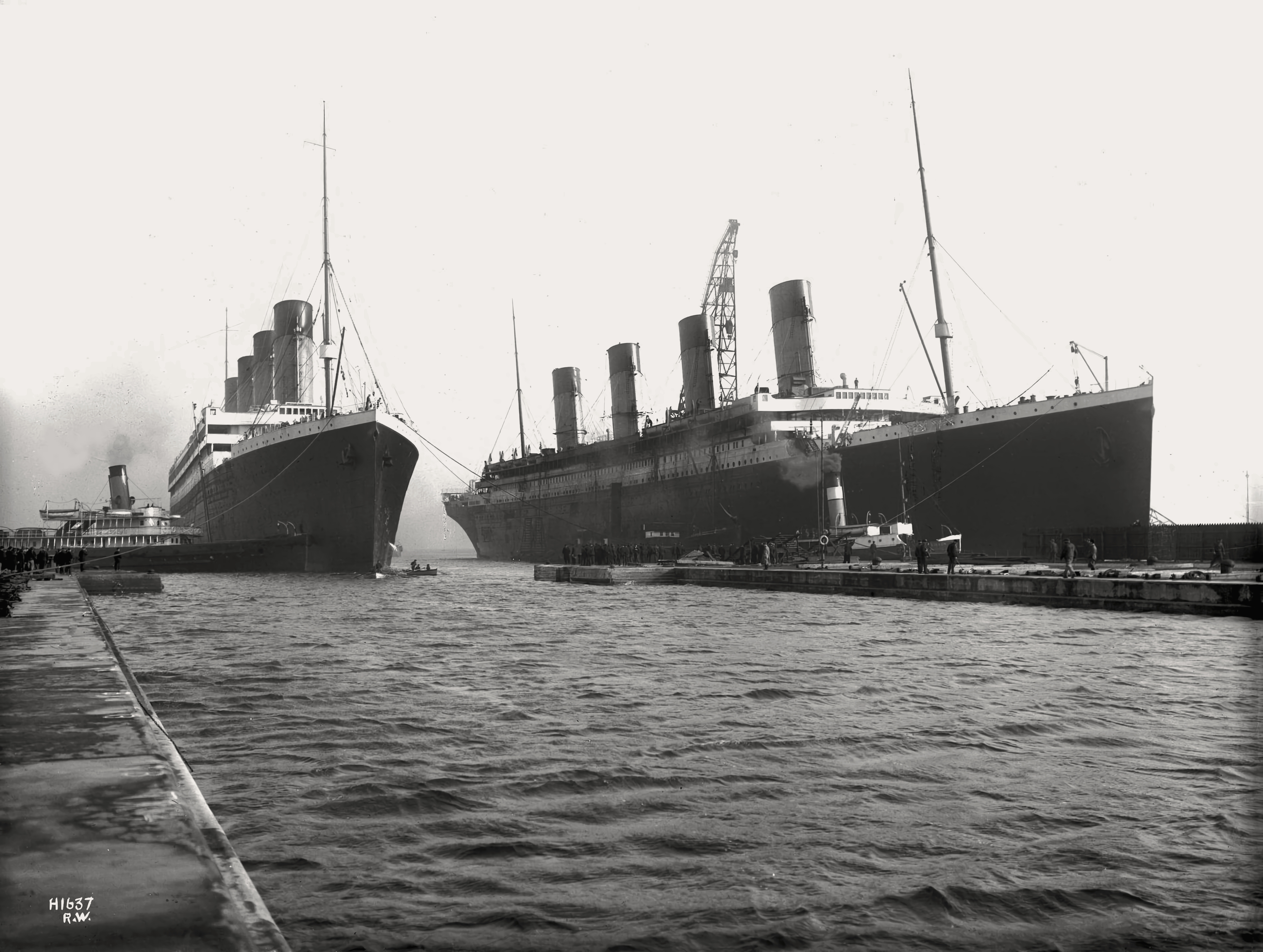 March 6, 1912: Titanic (right) had to be moved out of the drydock so her sister Olympic, which had lost a propeller, could have it replaced.